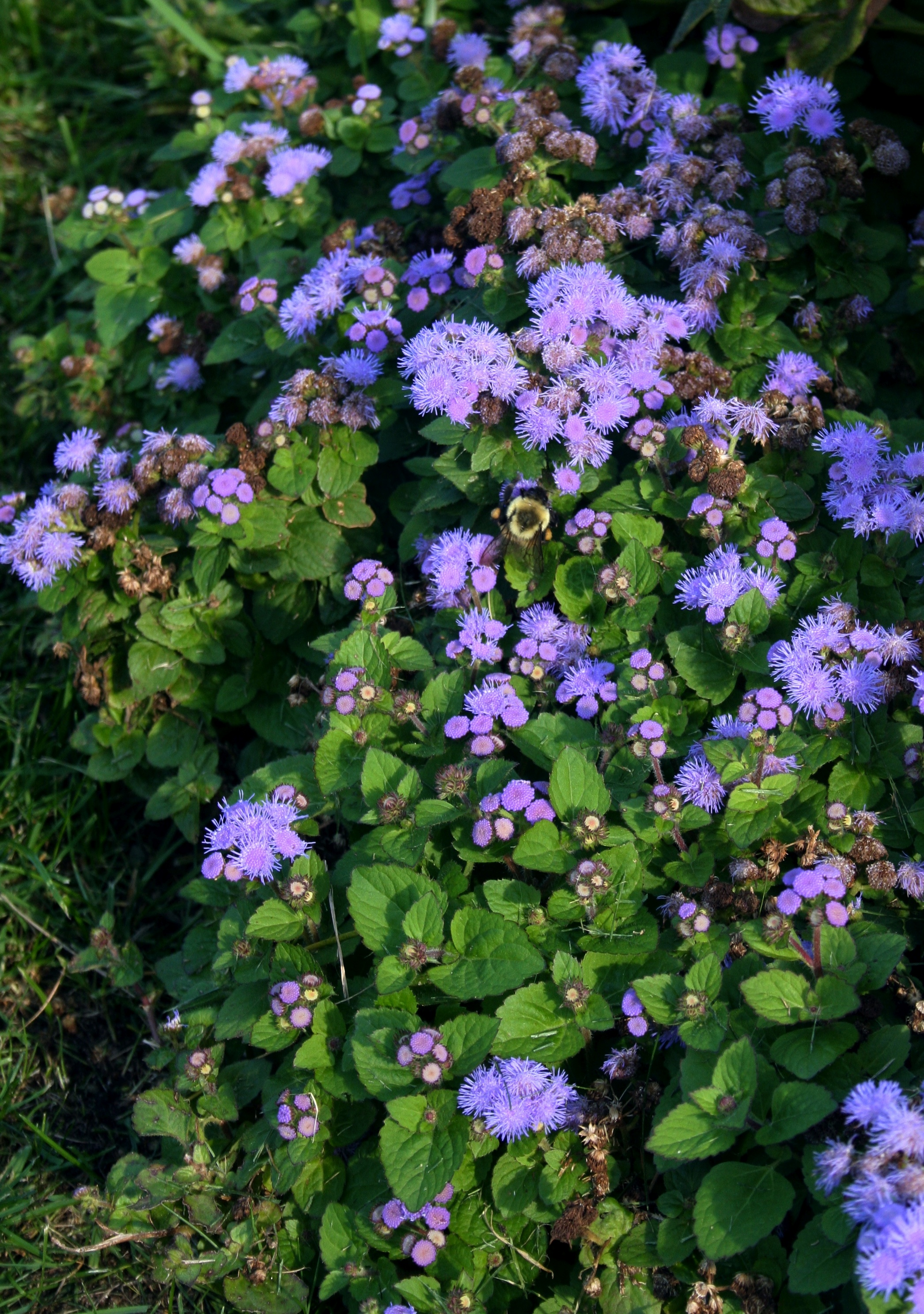 Bumble bee (Bombus spec.) on flowering Bluemink (Ageratum houstonianum); Yarmouth, Cape Cod, Massachusetts, USA.